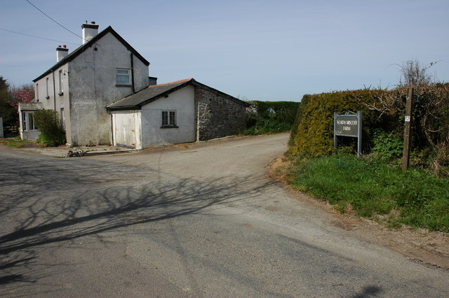 North Arscott Cottage North Arscott Cottage and the entrance to the drive to North Arscott Farm.